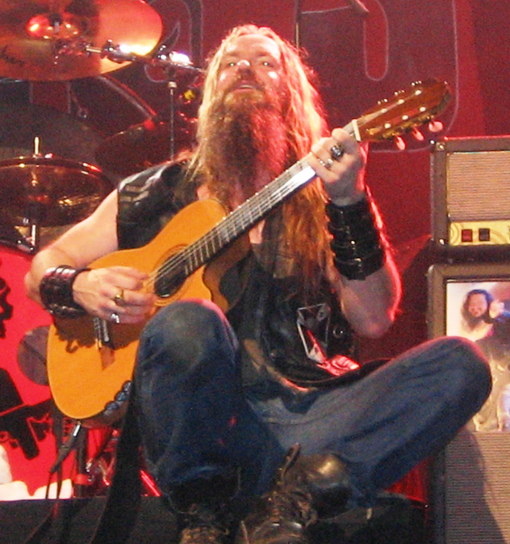 Zakk Wylde live (Recorded at The Electric Factory in Philadelphia, PA)